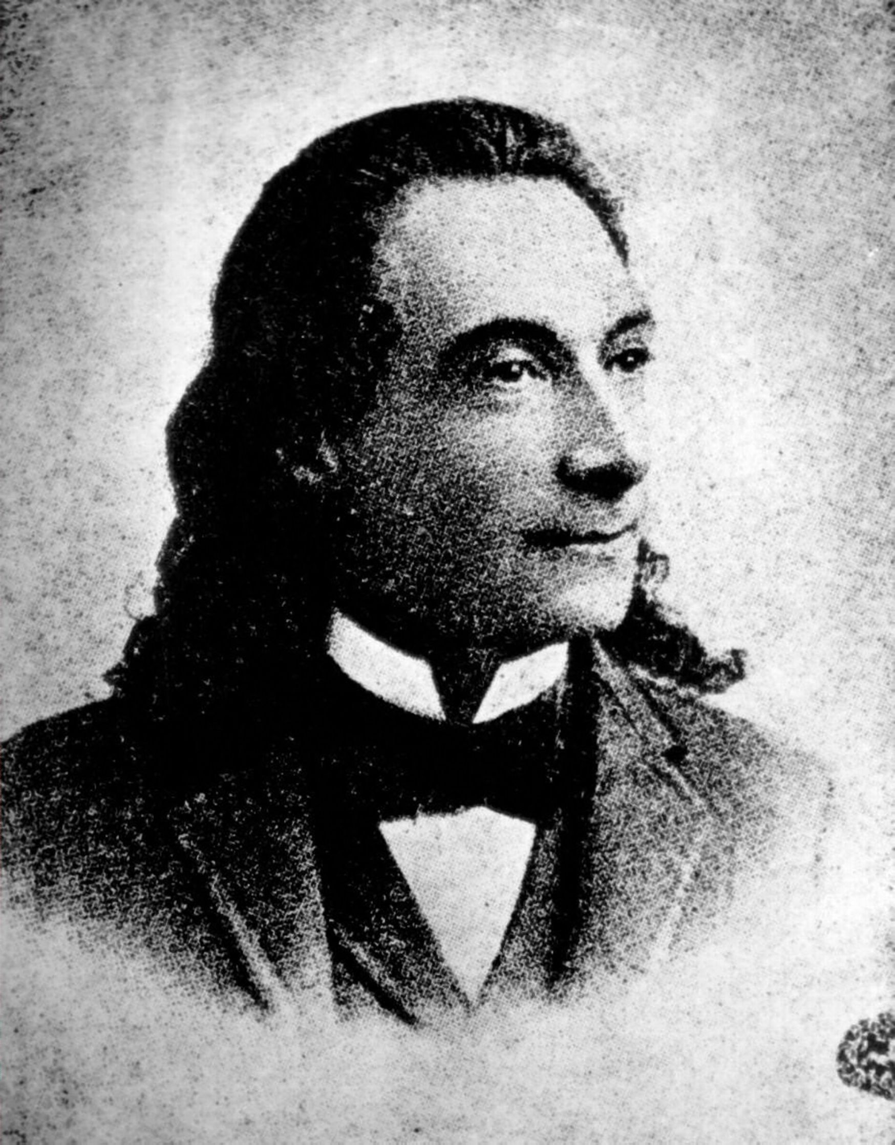 Naphtali Herz Imber, Zionist who wrote the lyrics of HaTikvah, the national anthem of the State of Israel.